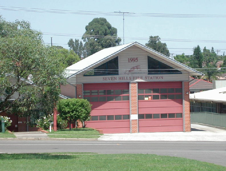 Image of NSW Fire Brigade Station in Leabons Lane, Seven Hills, New South Wales Image created on 21st January 2006 and edited by me and placed in the public domain.